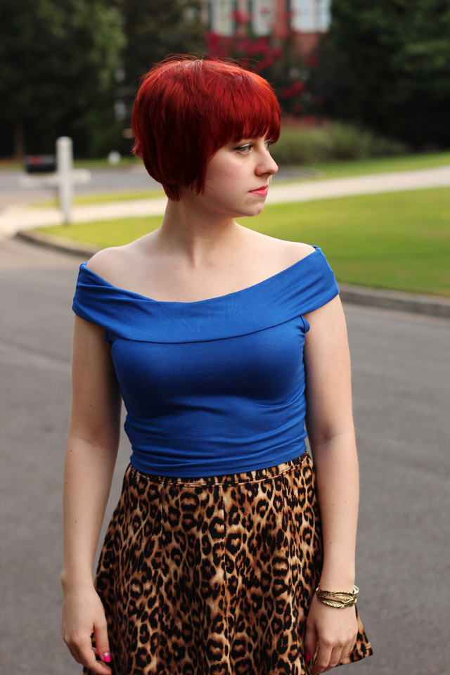 Blue Off the Shoulder Crop Top, Leopard Skirt, & Short Red Hair